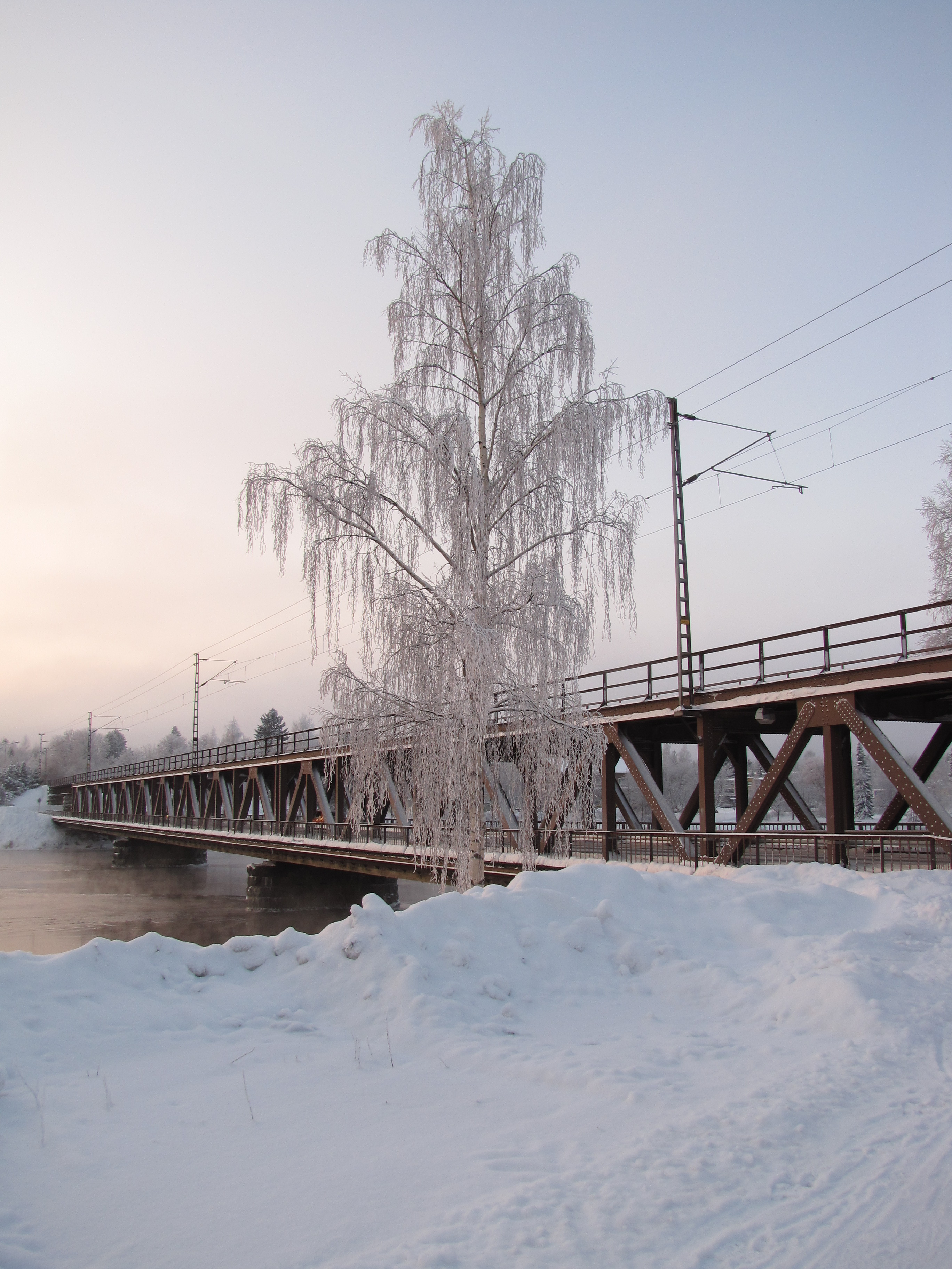 Old Mansikkakoski bridge in Imatra.